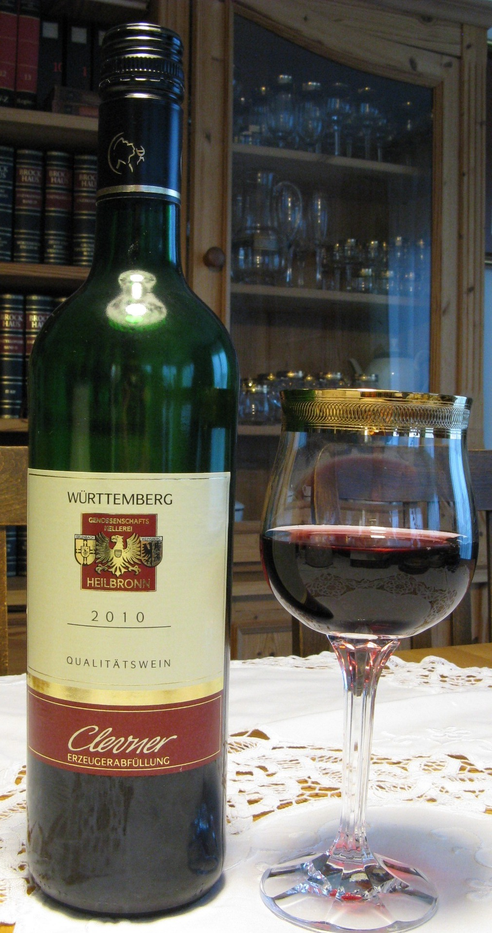 Clevner (= Pinot Noir Précoce, at German region of Württemberg called "Clevner", from Württemberg (Heilbronn)), vintage 2010